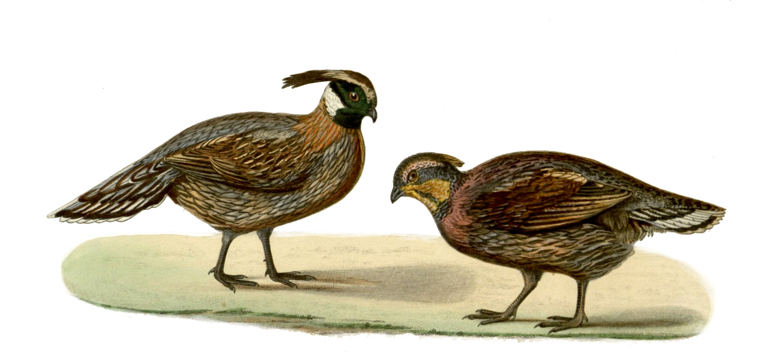 Pucrasia macrolopha xanthospila